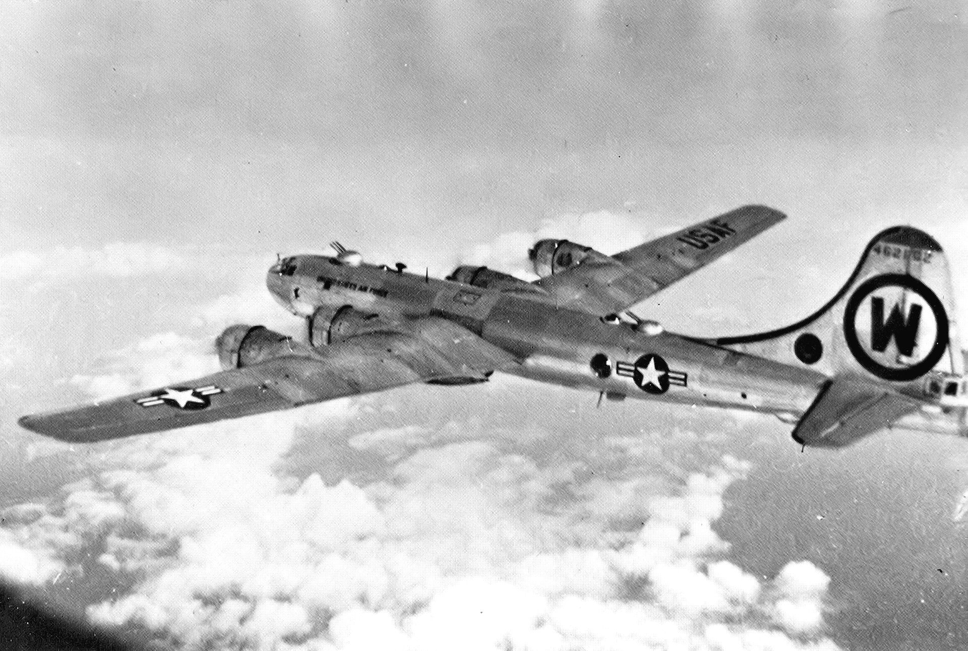 92d Bombardment Group Boeing B-29A-60-BN Superfortress 44-62102 "Wright's Delight" transferred to 98th BG. Crashed Nov 19, 1952, Ch'o-Do Island, North Korea.